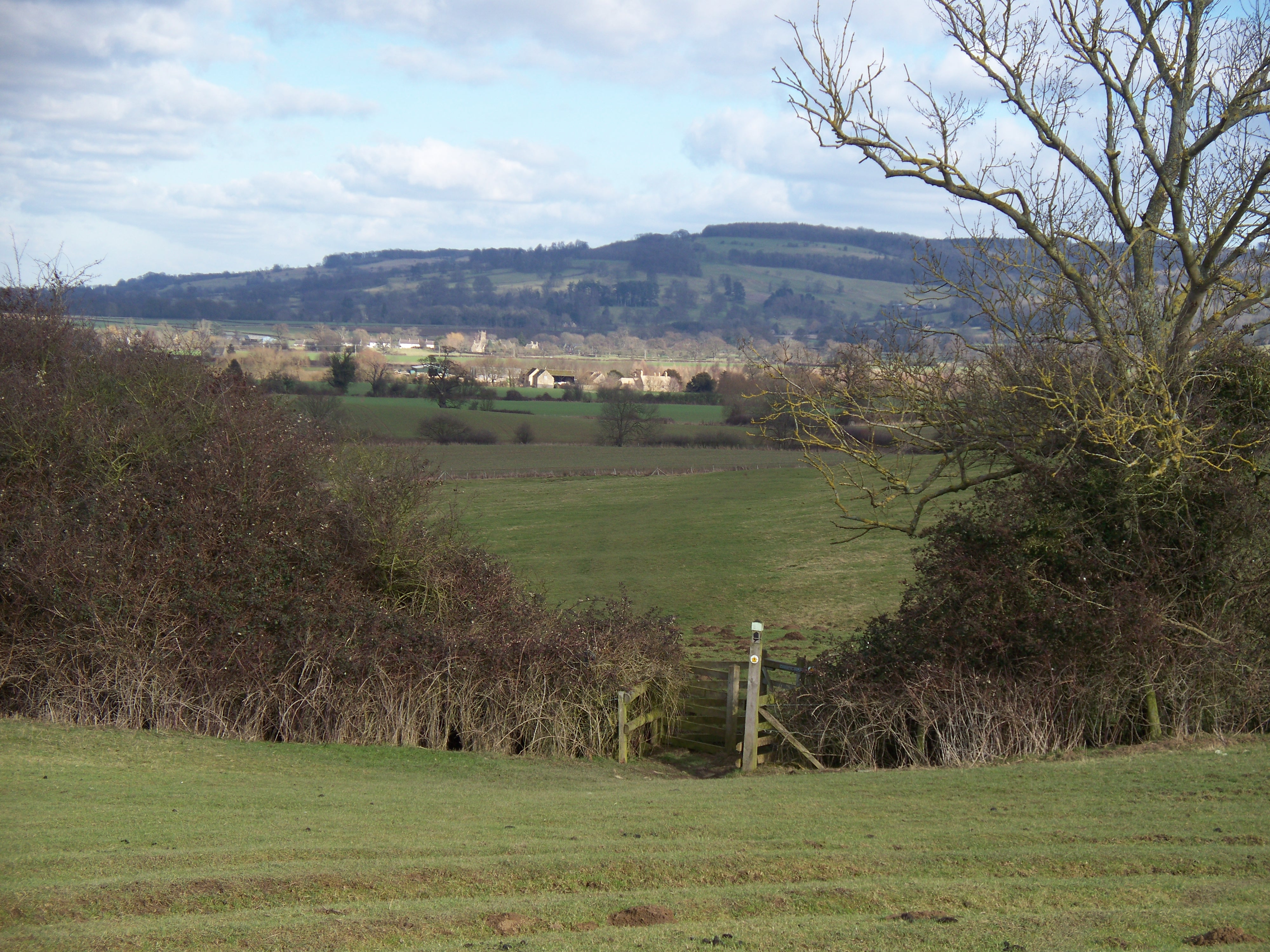 Cotswold Way The path runs diagonally across the next field on its way towards Hailes. Shenberrow Hill SO0733 in the distance.